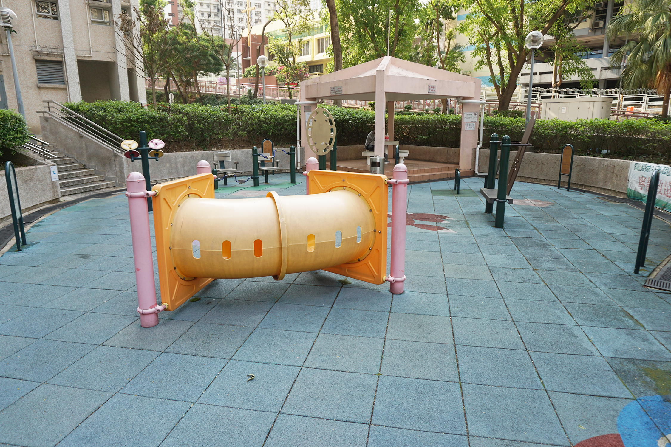 Po Pui Court in Kwun Tong, Hong Kong.